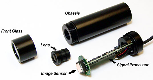 Datatoys Helmet Camera